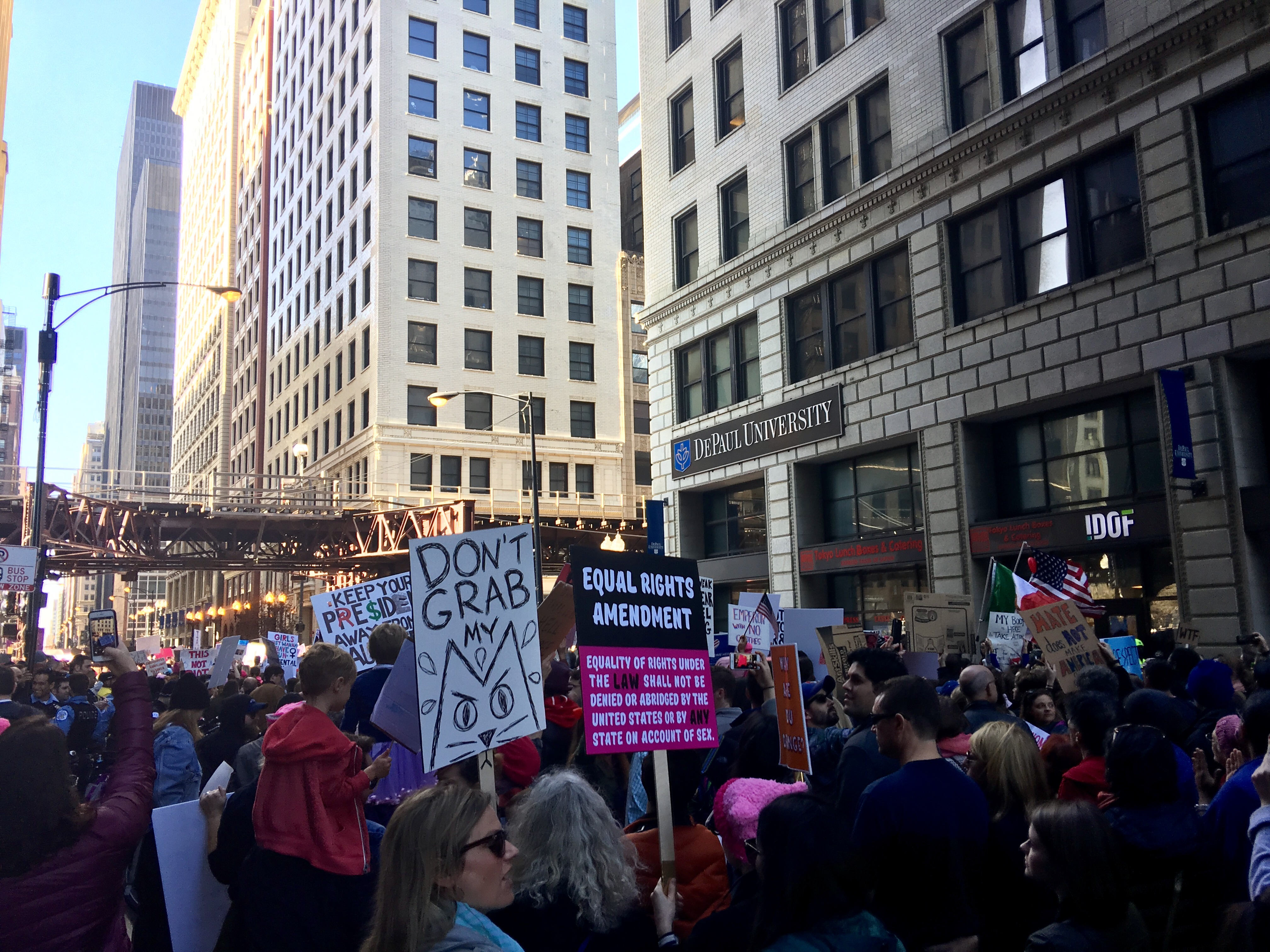 Women's March Chicago January 21, 2017